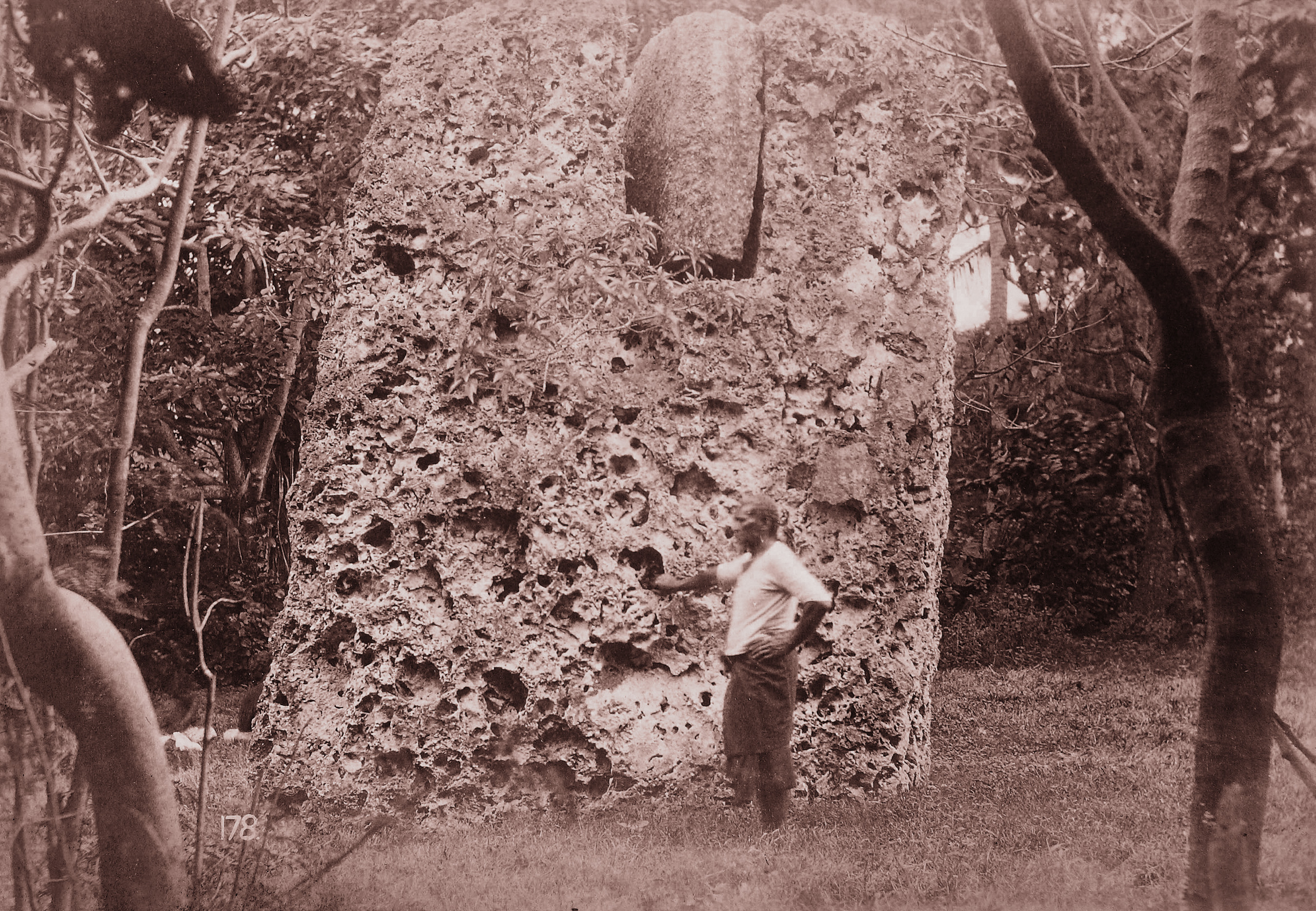 Side view of Remarkable Stone; [Mua, Tonga, c1880 to 1889]. The Haʻamonga trilithon was built in the 13th century by the 11th Tuʻi Tonga Tuʻitātui. (Information from Daly, Martin (2009). Tonga : a new bibliography (2nd ed). University of Hawaiʻi Press, Honolulu)